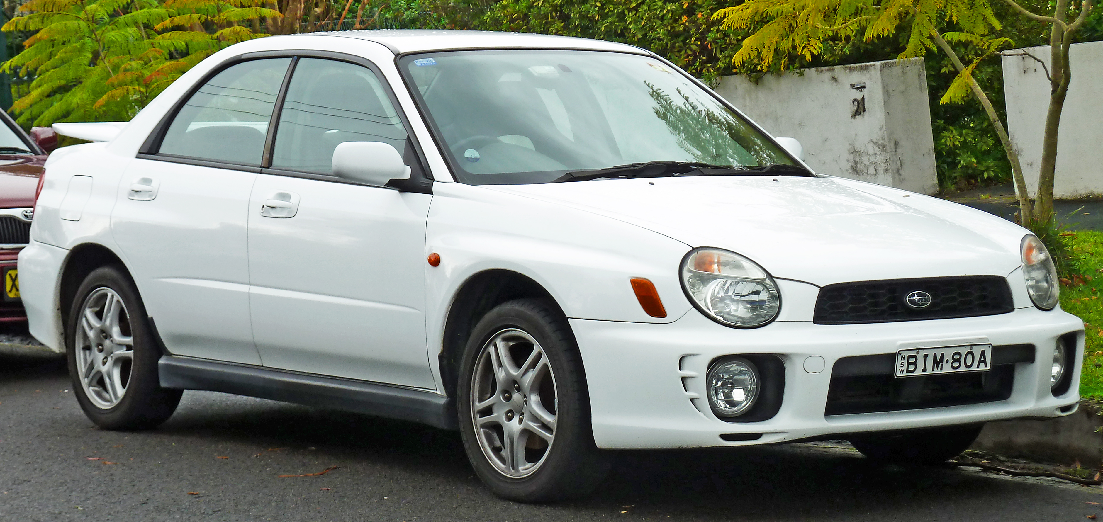 2001–2002 Subaru Impreza (GDE MY02) RS sedan. Photographed in Gordon, New South Wales, Australia.